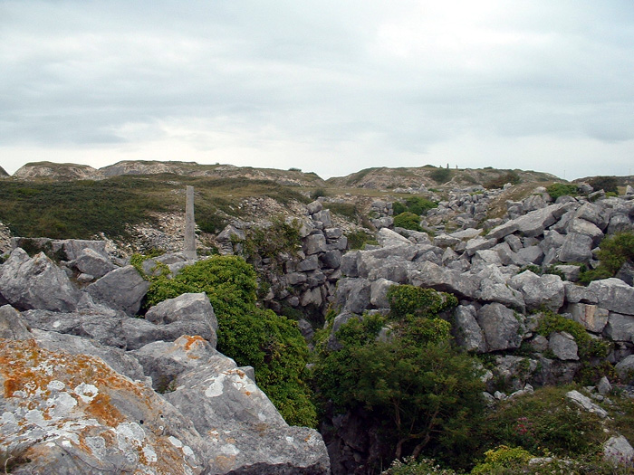 The sculpture park, Isle of Portland, Dorset. Taken by user:Steinsky, July 15 2004.